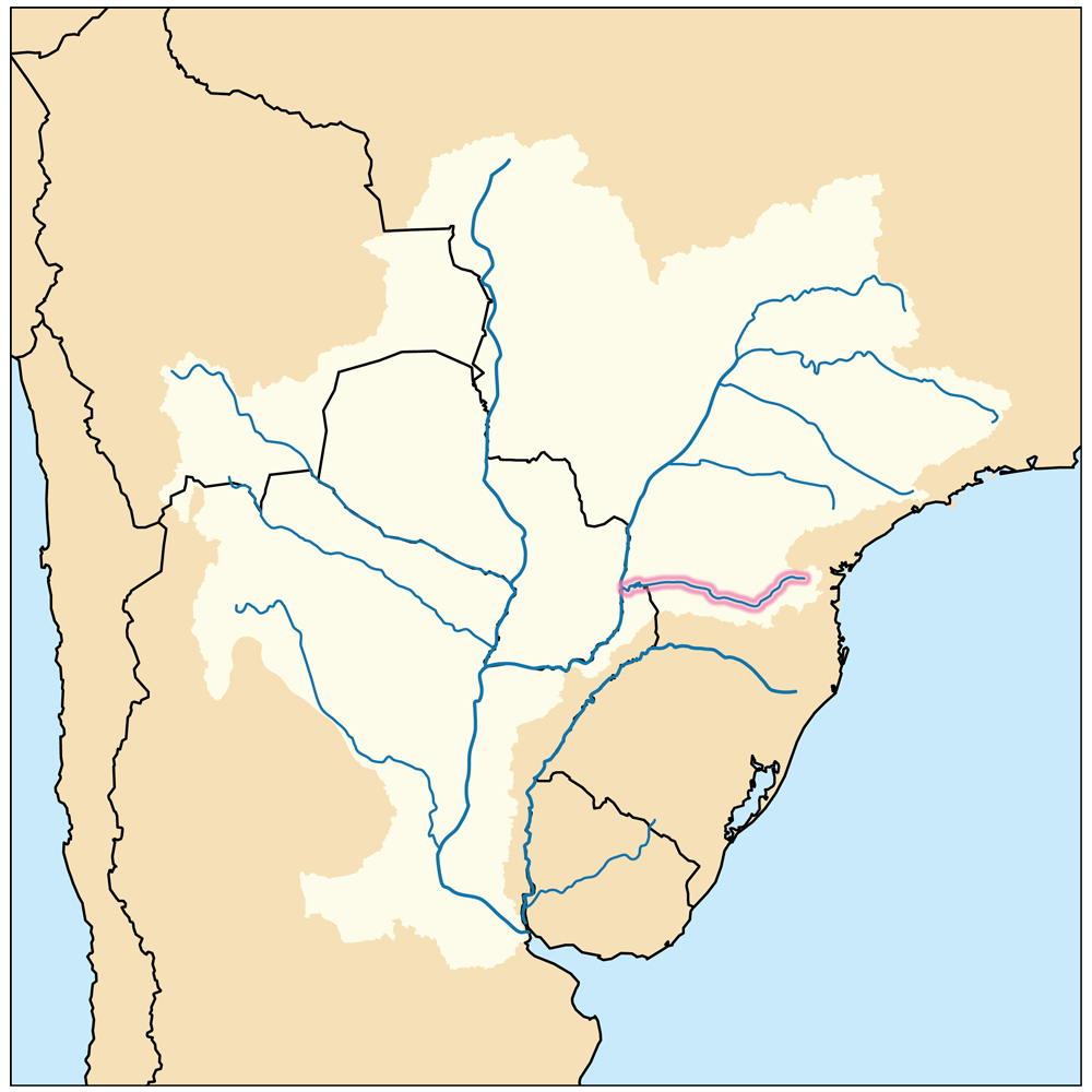 This is a map showing the Iguazu River highlighted within the Paraná River drainage basin.